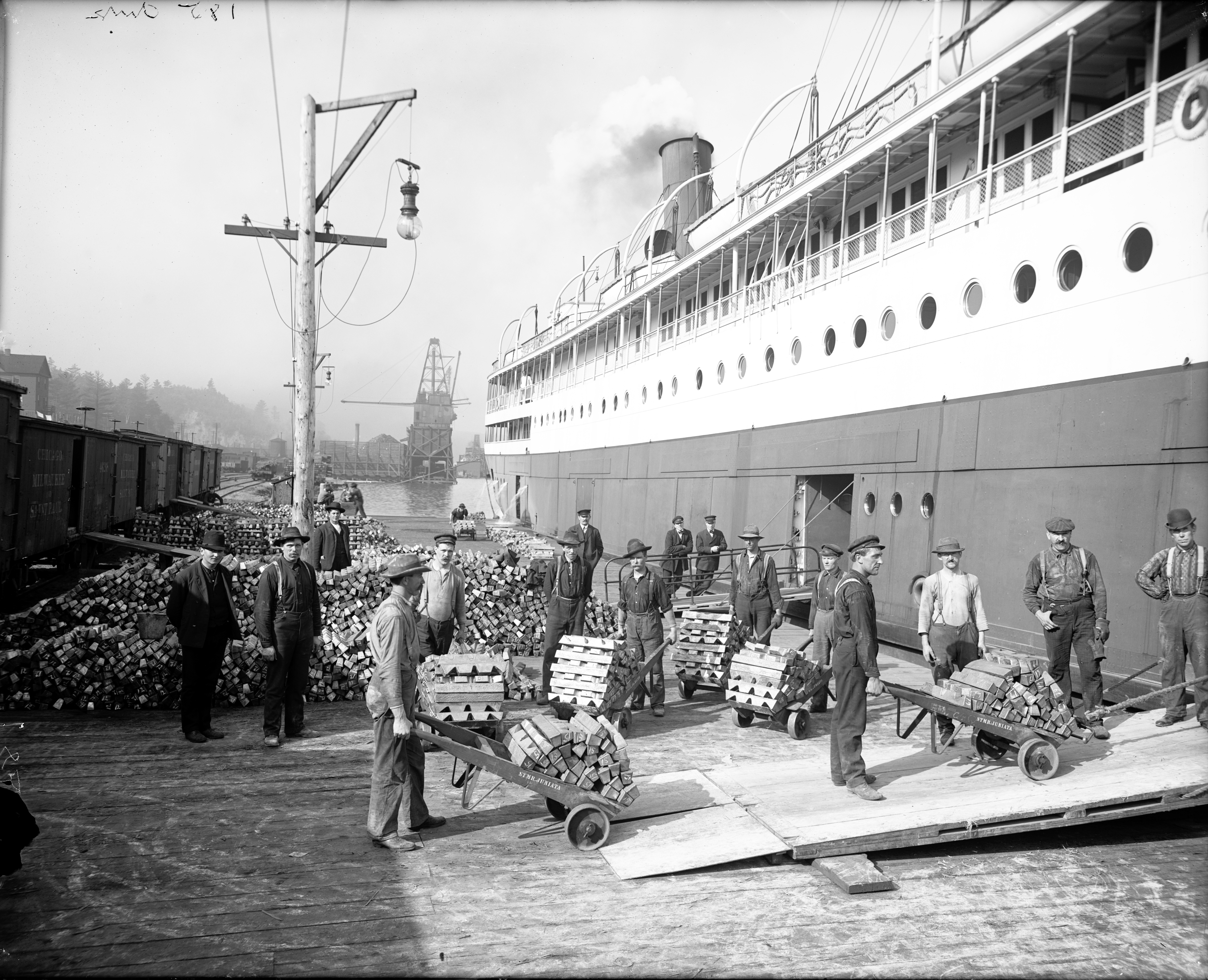 Loading copper onto a steamer (SS Juniata) in Houghton, Michigan.